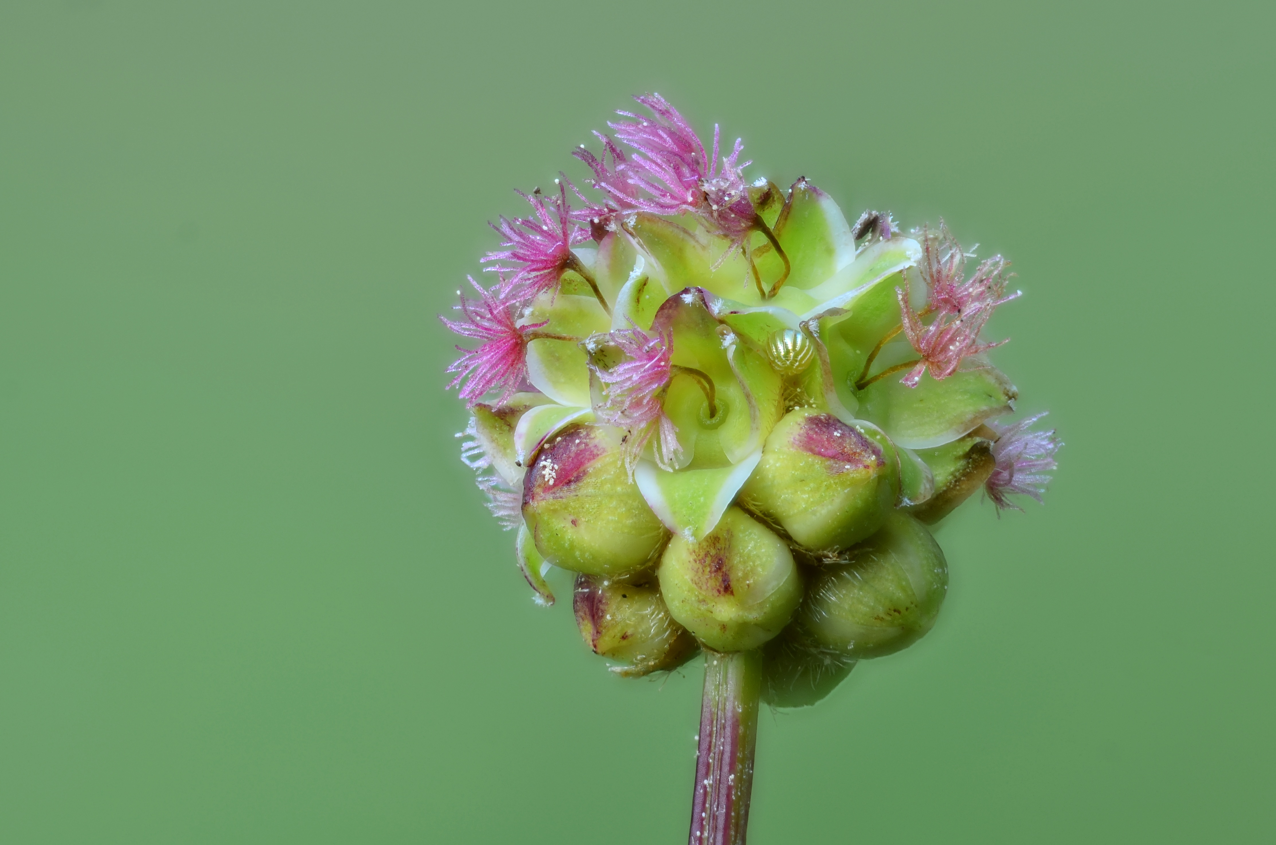 Spialia sertorius egg on a Sanguisorba minor flower Technical settings : - Focus stack of 54 images - Micro-Nikkor AF 60mm f/2.8 on extension tubes at f/5.6, 1/13s, 100 iso, natural morning light